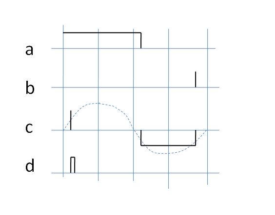 Three Phase Square Wave Operation